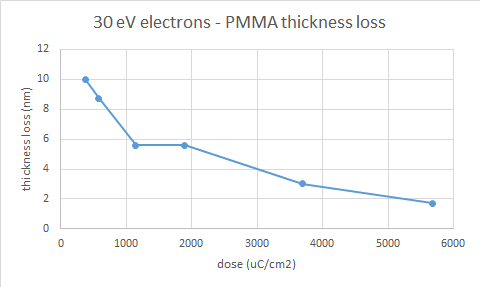 PMMA resist thickness loss after exposure to 30 eV electrons at different doses. Ref.: (Fig. 29)